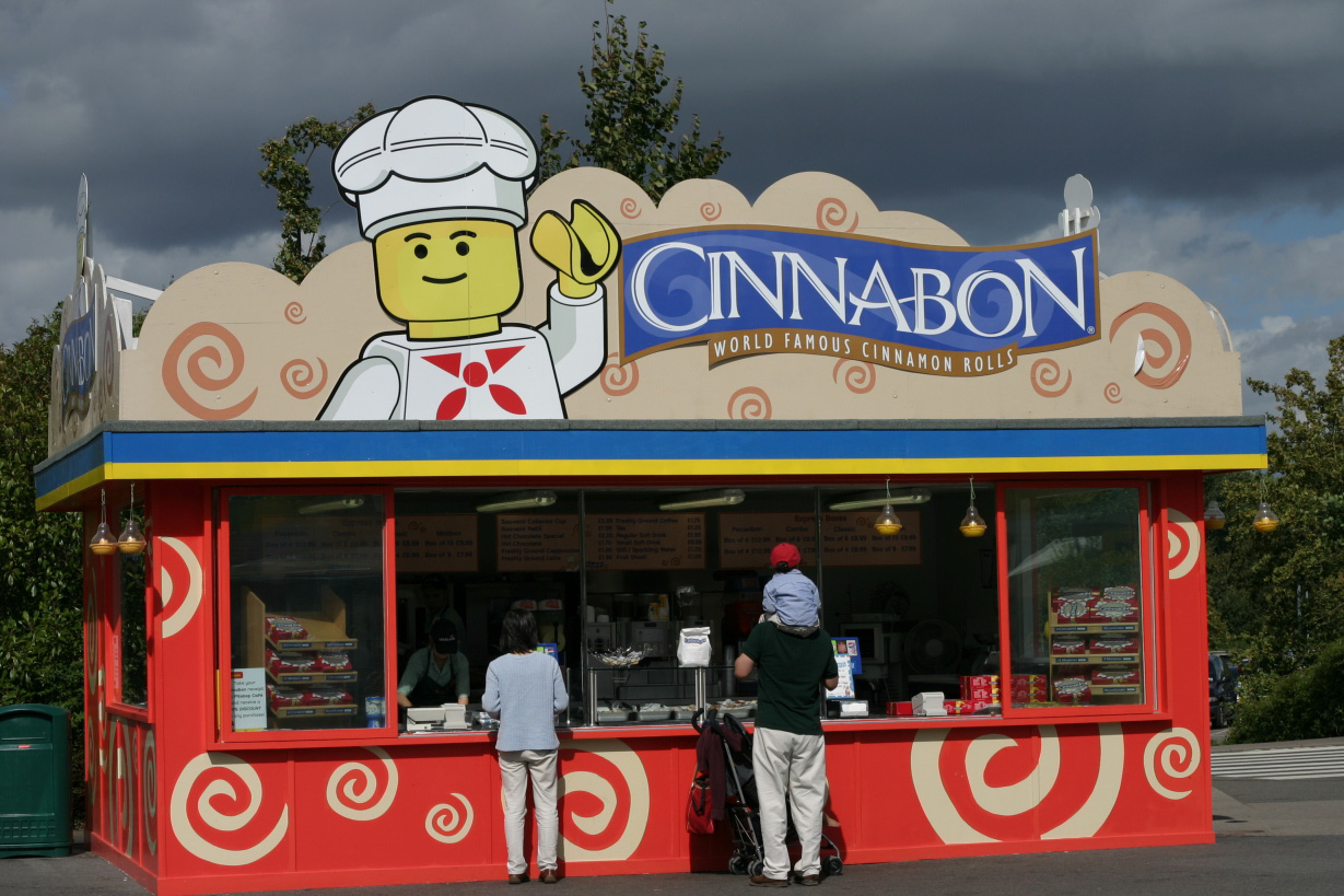 Cinnabon at Legoland Windsor resort.